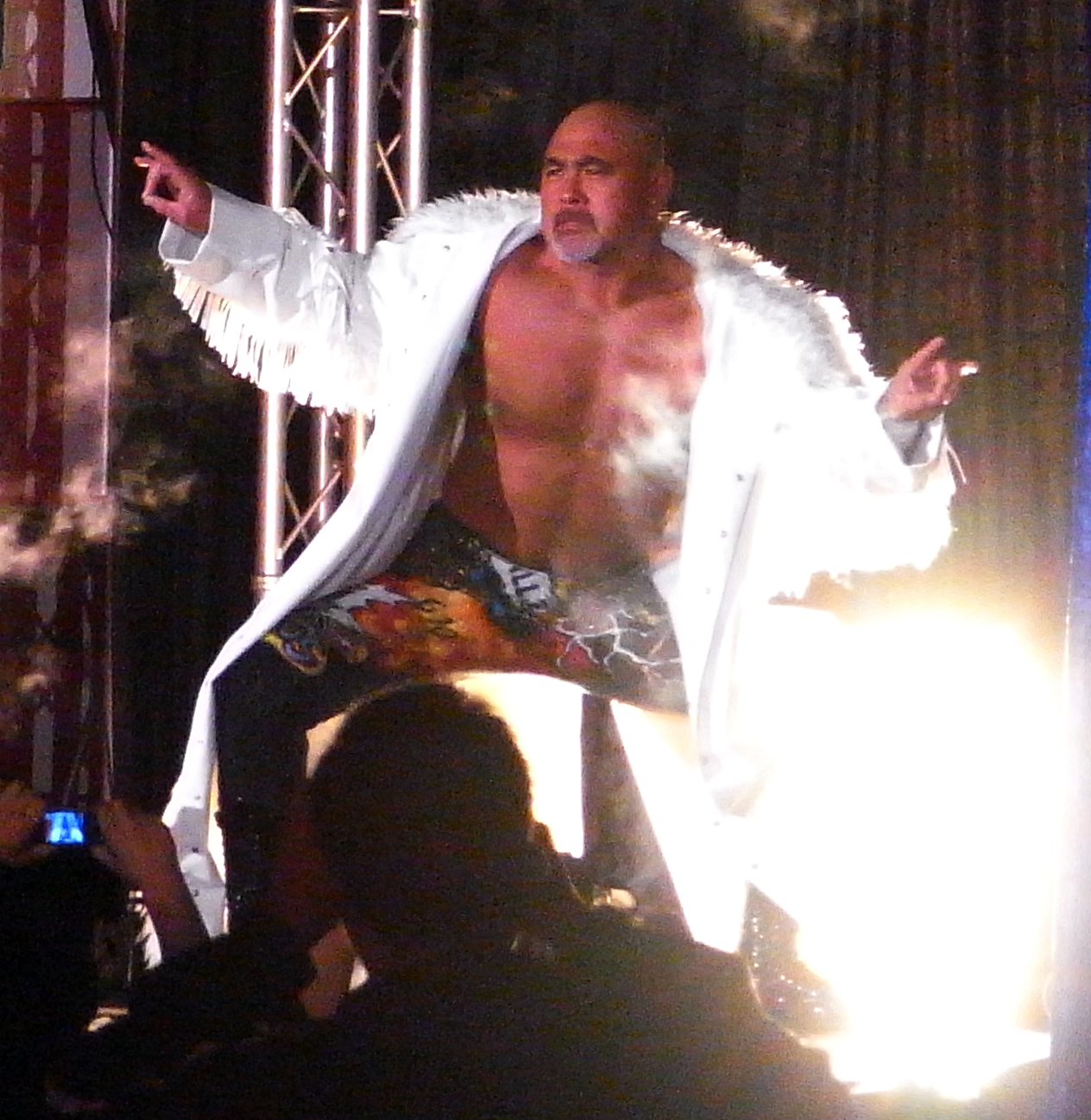 Keiji Mutoh at AJPW "Pro-Wrestling Love in Taiwan 2010", the National Taiwan University Gymnasium, Taipei.